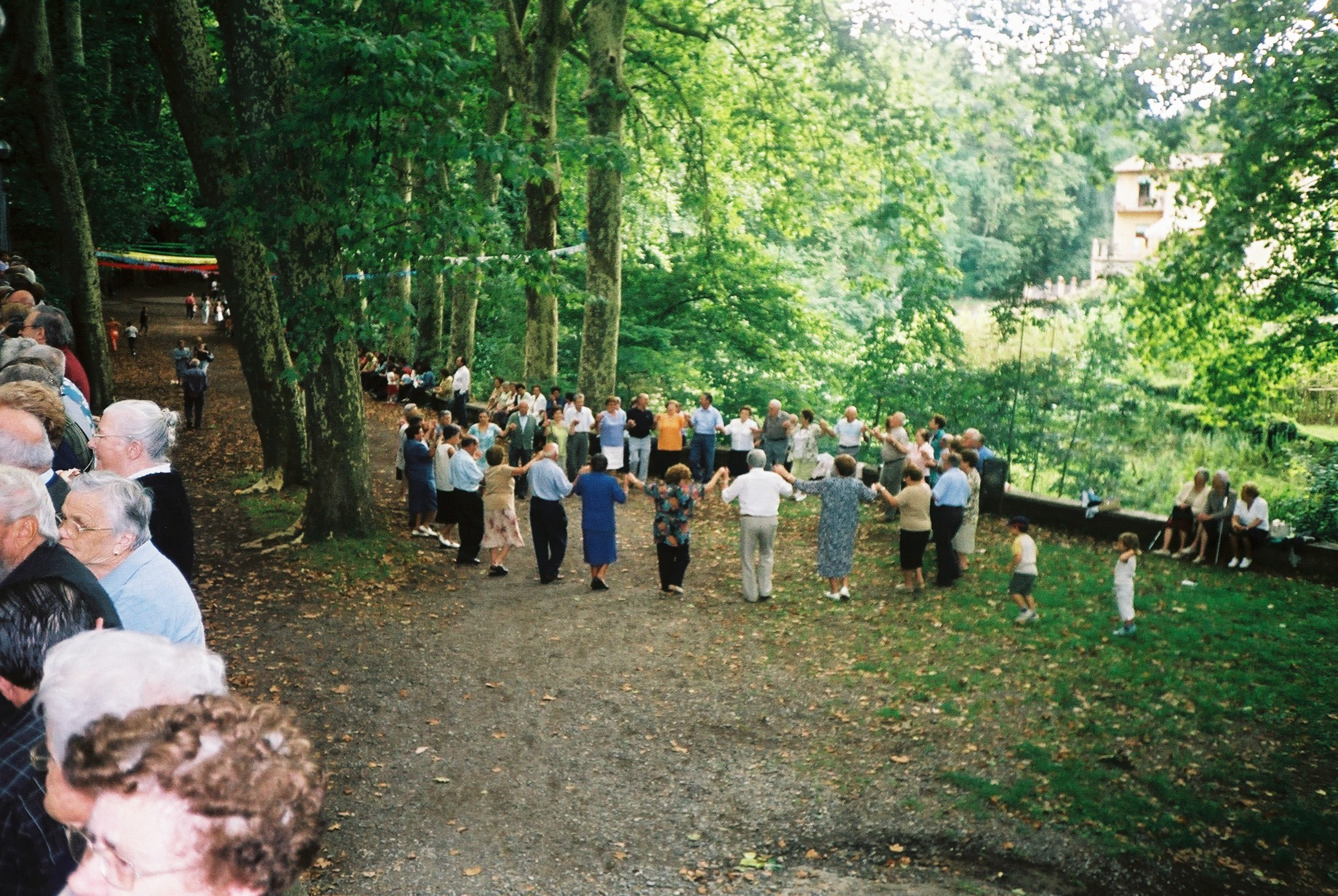 Author: Wamito Object: Sardana Festivities Olot/Catalunya/Spain on 11.09.2005 (Holiday of Olot and National holiday of Catalunya) Place: Les fonts de San Roc